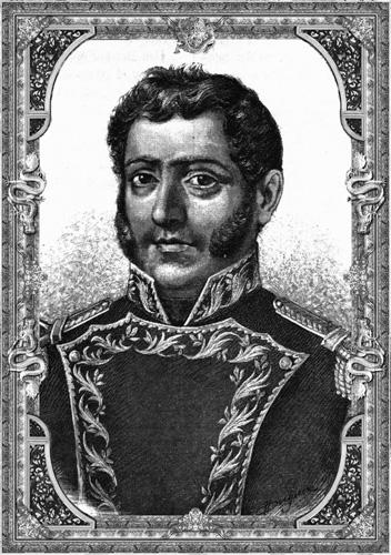 Self-portrait of Melchor de Eca Múzquiz y de Arrieta, Lithograph (1870-1907).